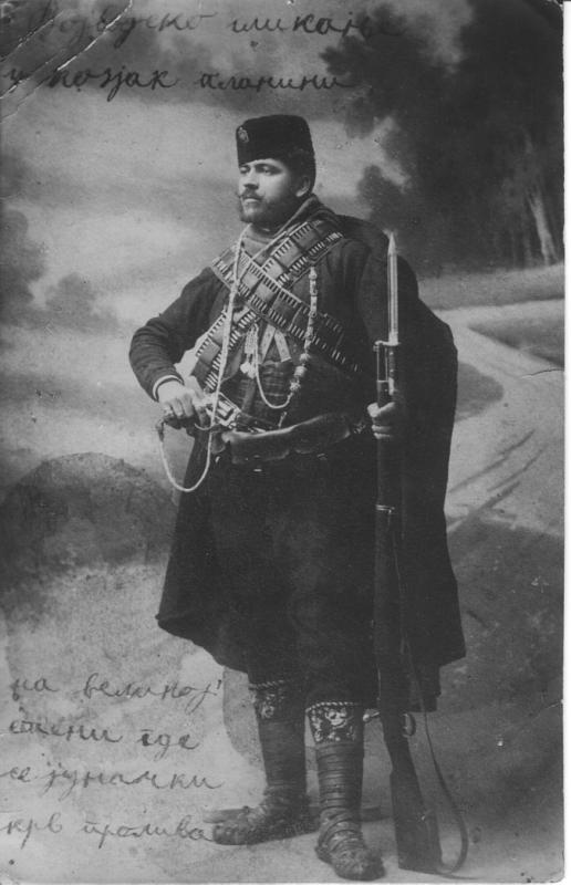 Serbian Chetnik Rista Stefanović